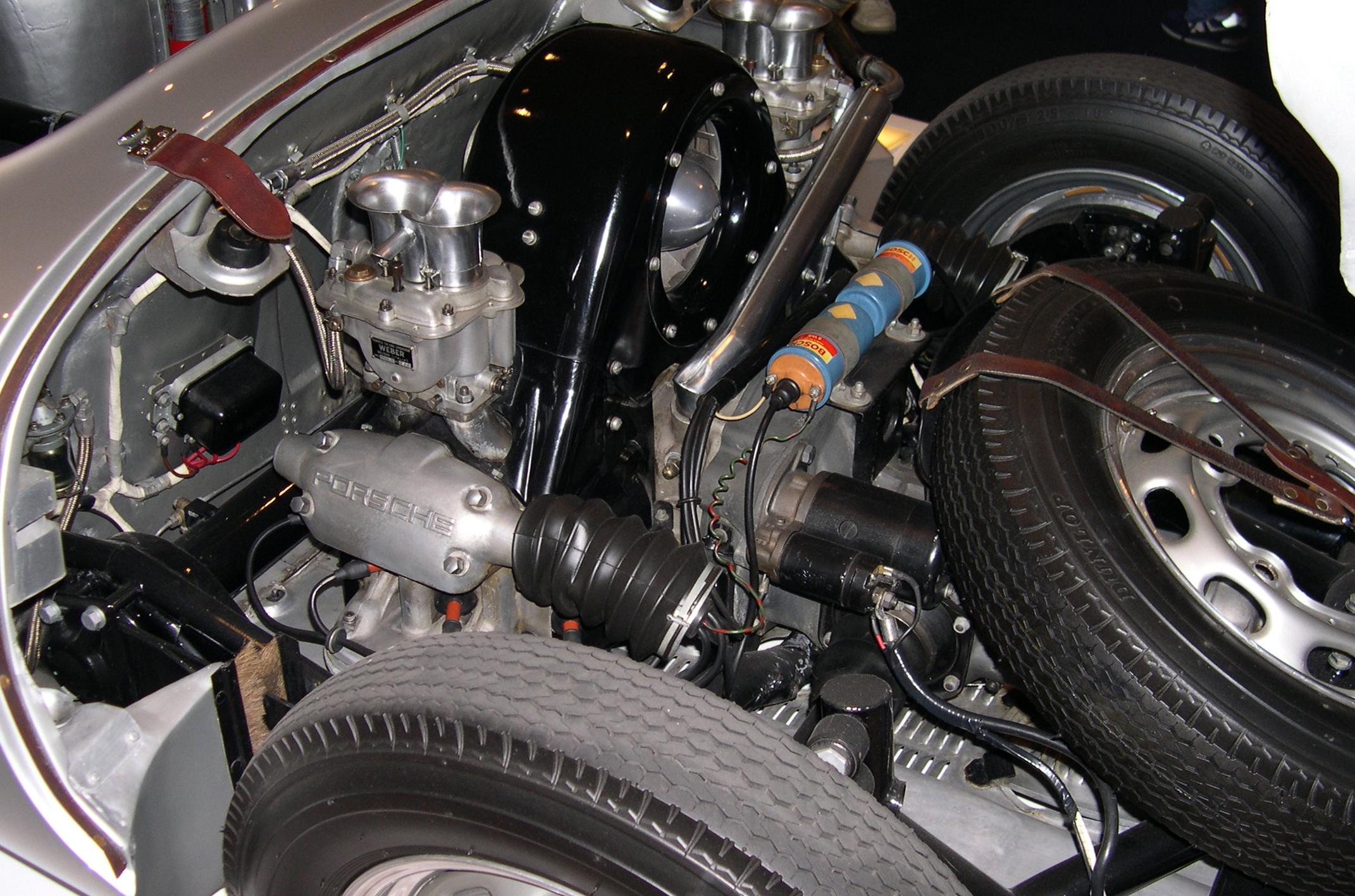 1955 Porsche 550 SpyderFrom the Ralph Lauren collection on display at the Boston Museum of Fine Arts.